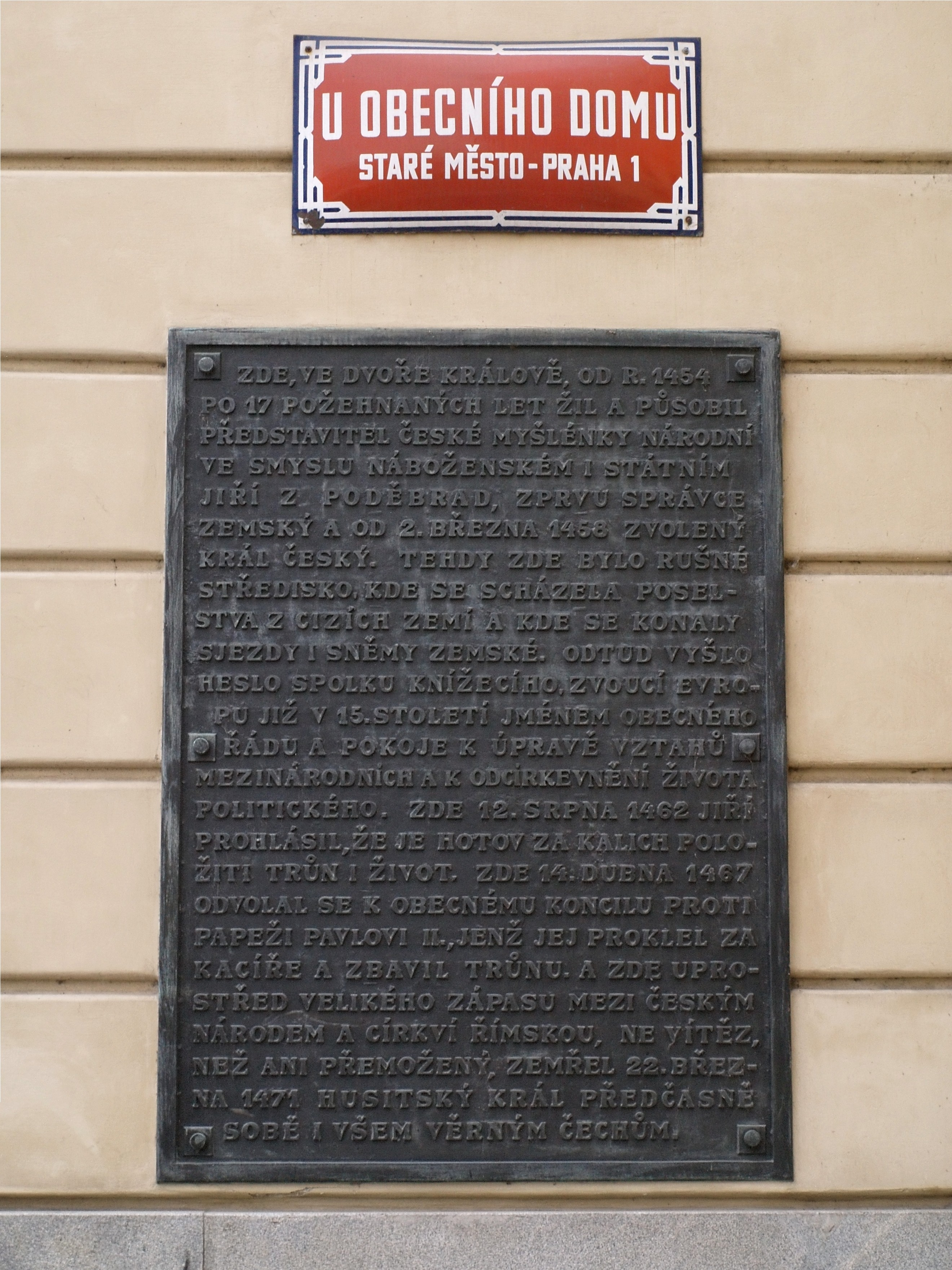 Bronze plaque on the Prague’s Municipal House, noticing Czech king George of Poděbrady that lived here for 17 years and died here on March 22, 1471